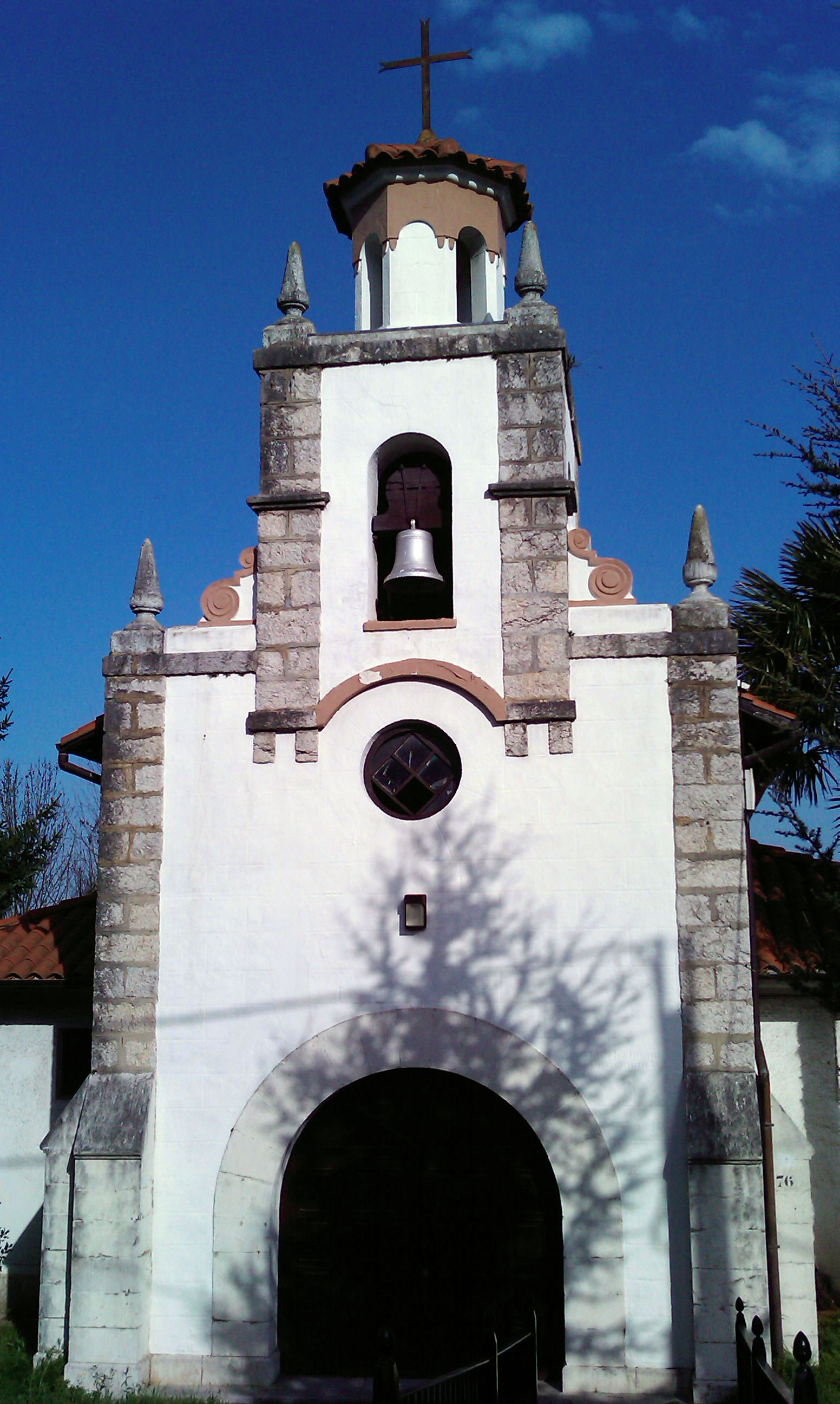 San Justo Church in San Salvador, Medio Cudeyo, Cantabria, Spain